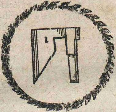 Topór coat of arms by Wacław Potocki